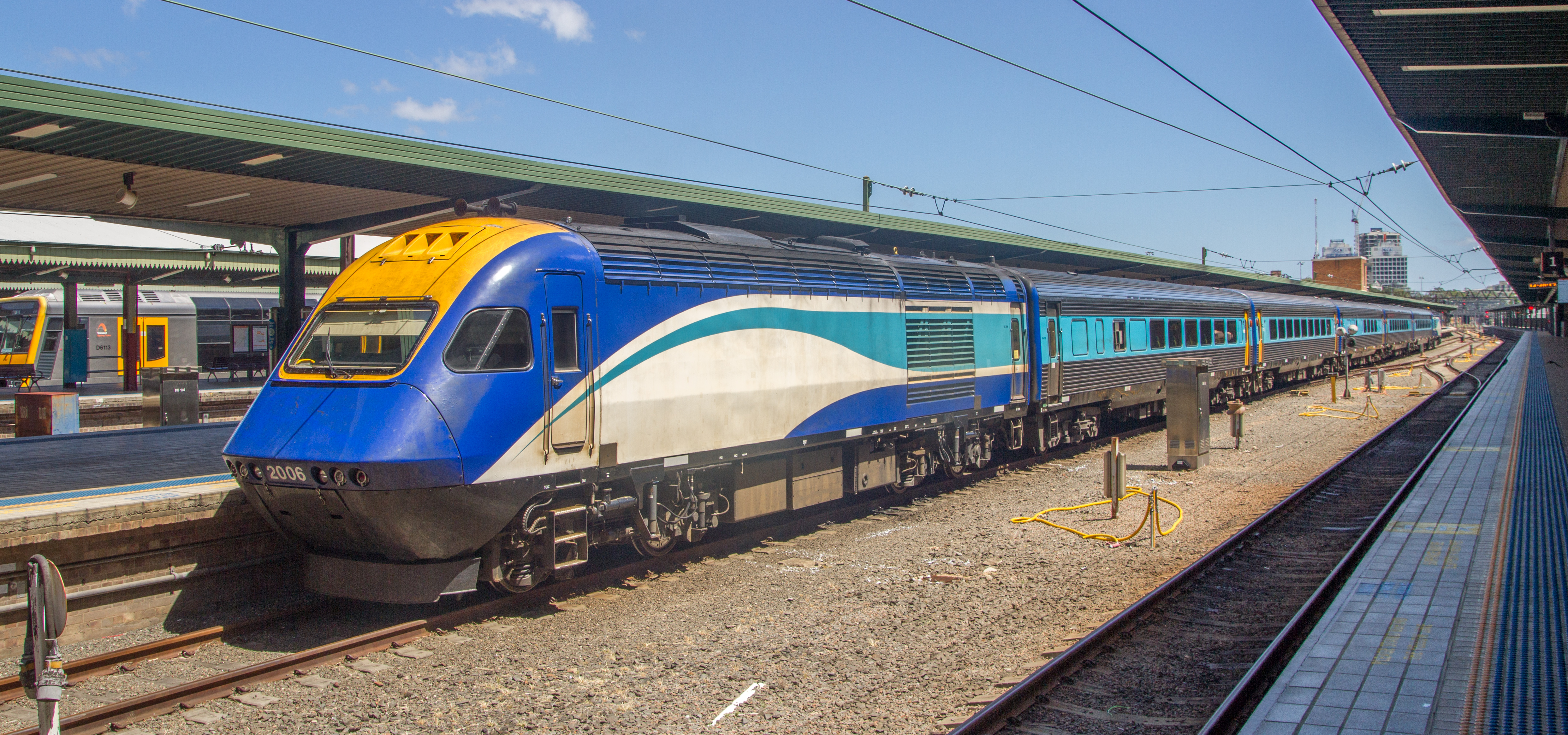 Countrylink XPT at Sydney Central station